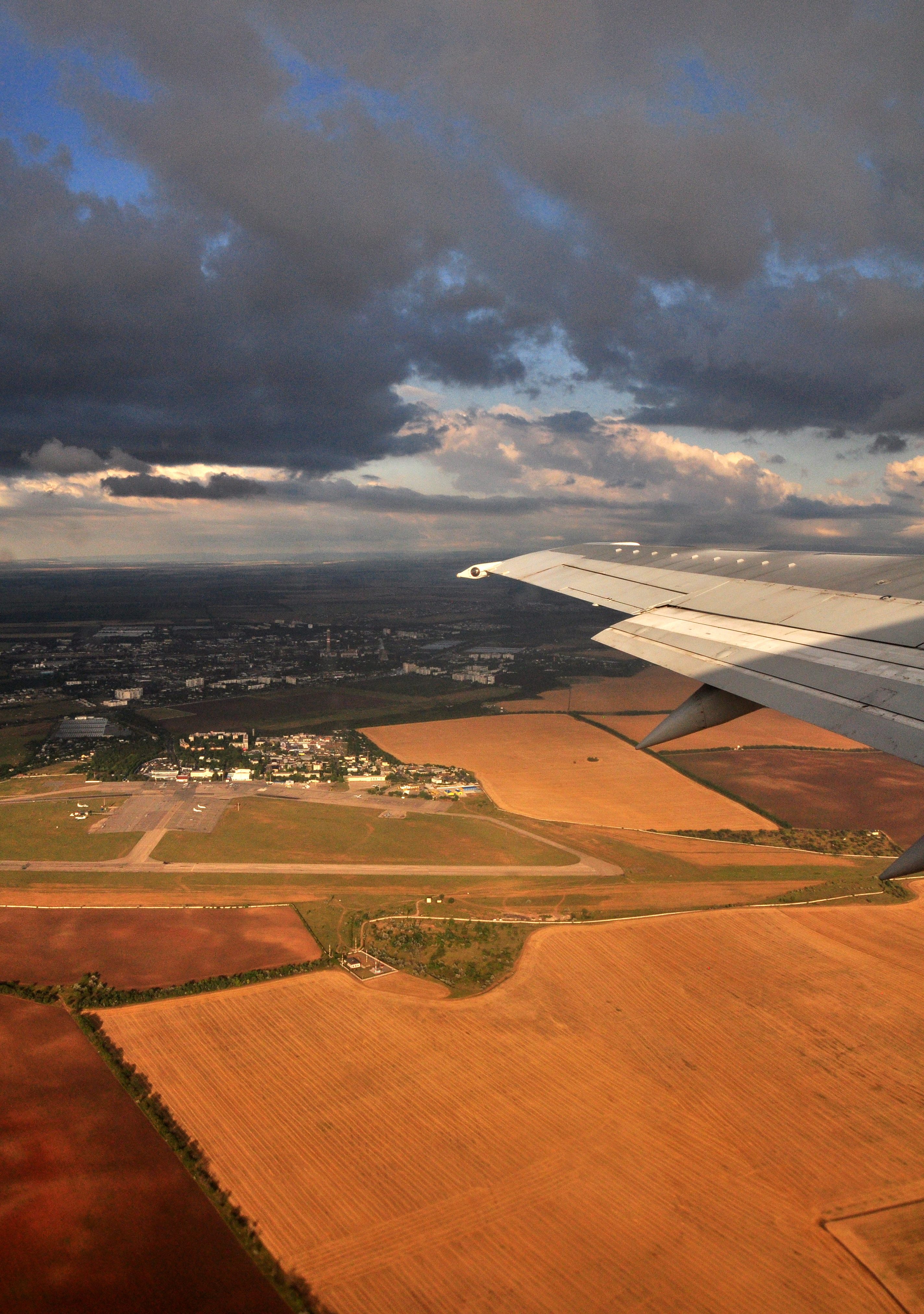 Simferopol International Airport, Crimea, Ukraine (aerial).